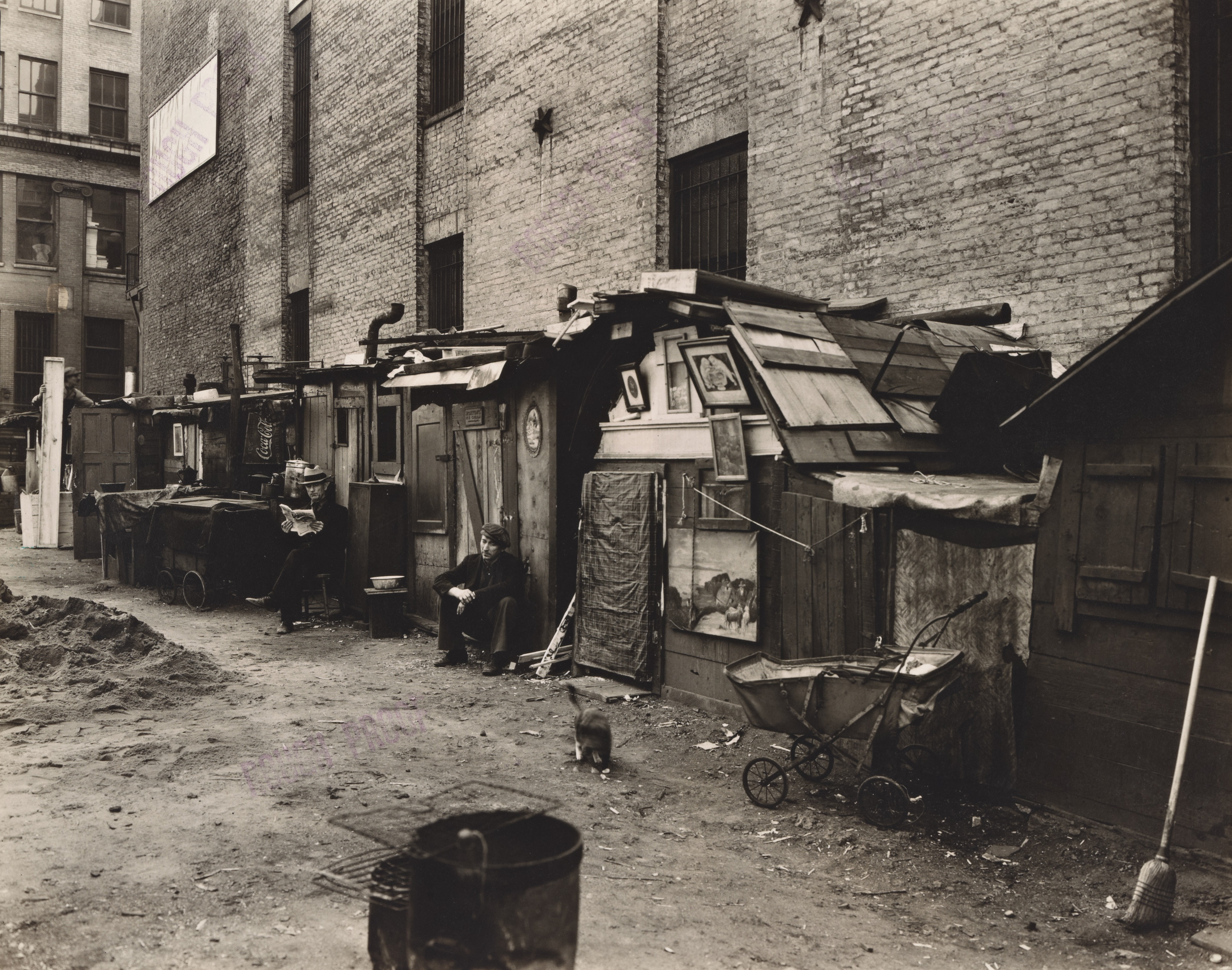 Code: III.G. Men sit in front of huts made of salvaged materials, some decorated with pictures, cat plays in front near baby carriage. Citation/Reference: CNY# 35